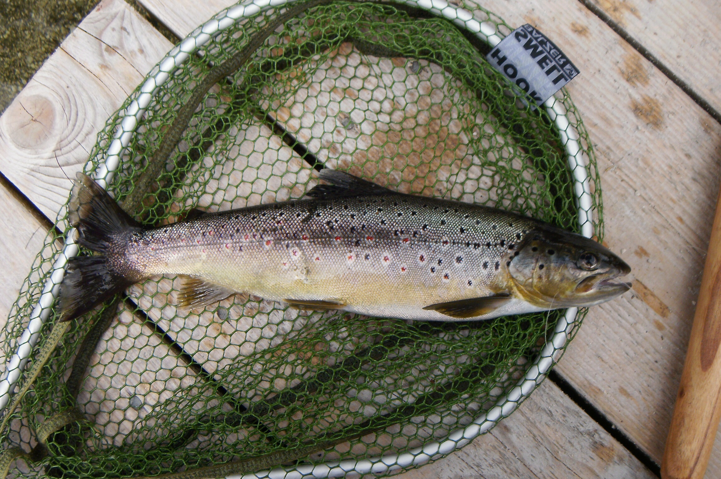 Lake Trout coaught in Lake Altausseersee, Austria